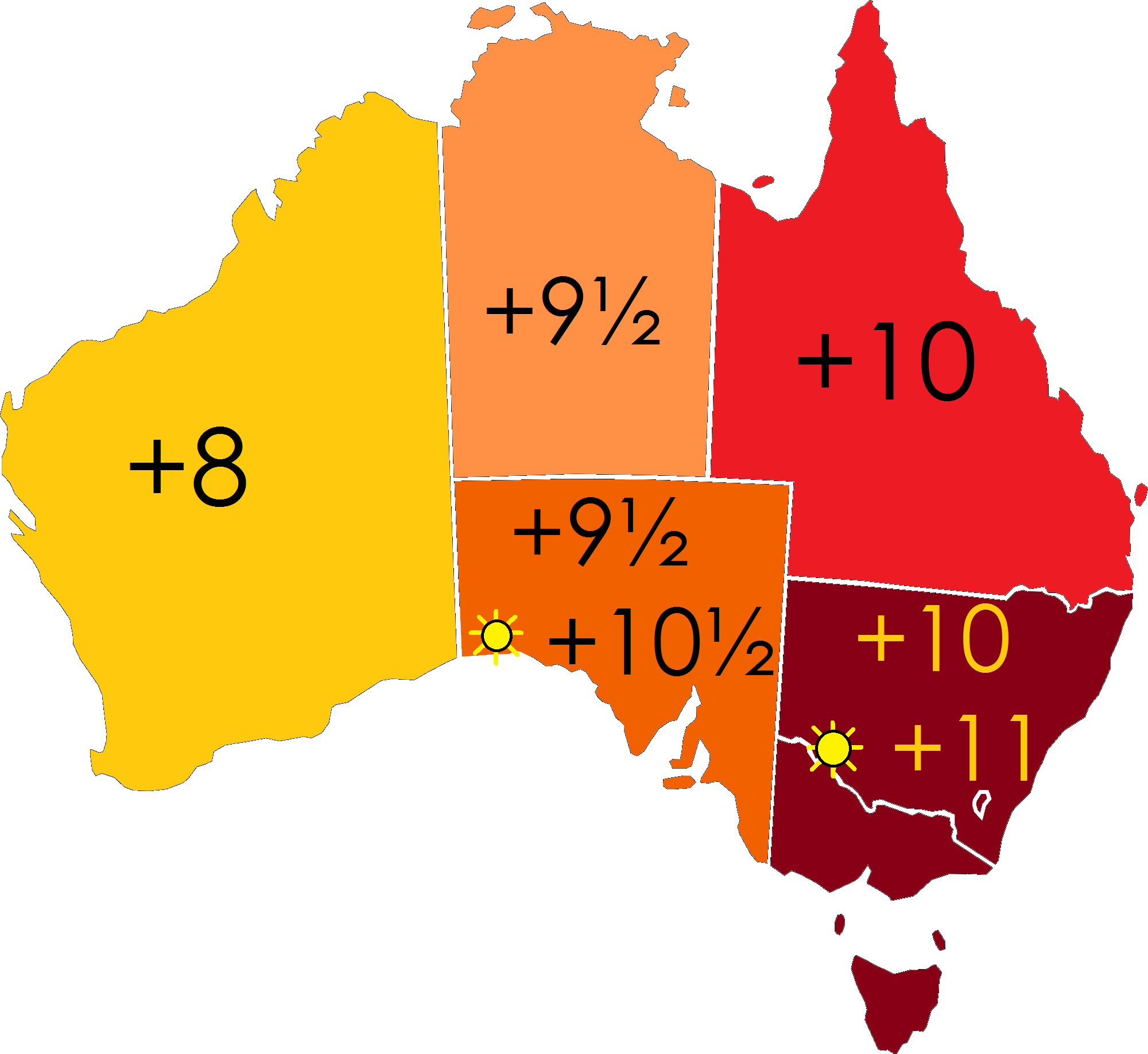 Map of Australia depicting time zones offsets from UTC by state (including daylight saving).